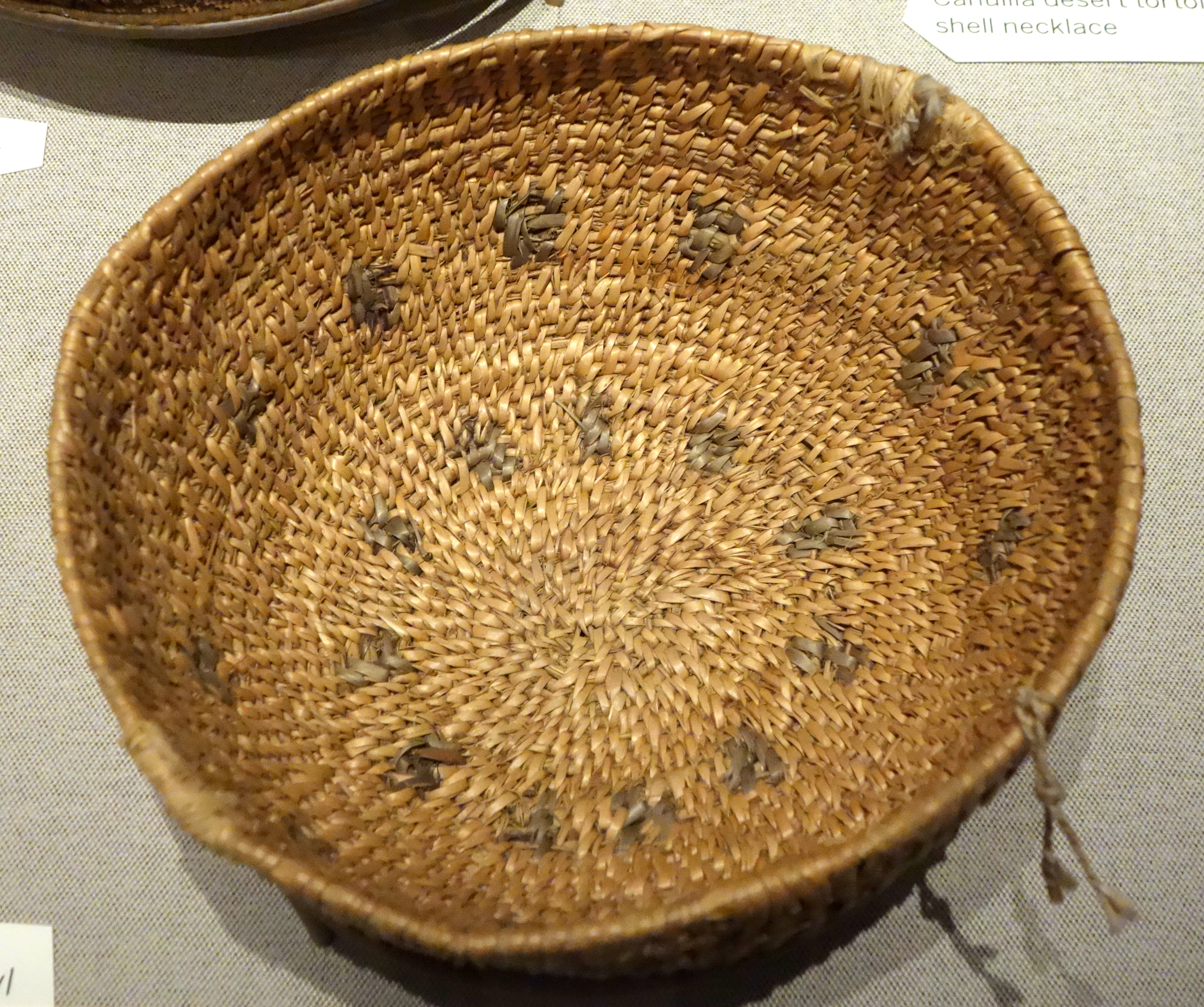 Exhibit in the Oakland Museum of California, Oakland, California, USA. This work is in the public domain because its maker died more than 70 years ago.